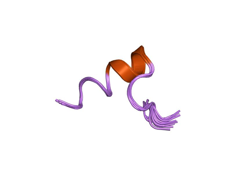 Cartoon representation of the molecular structure of protein registered with 1dpk code.